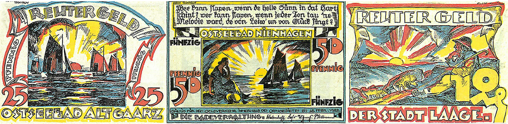 3 examples for "Reutergeld" - design Egon Tschirch